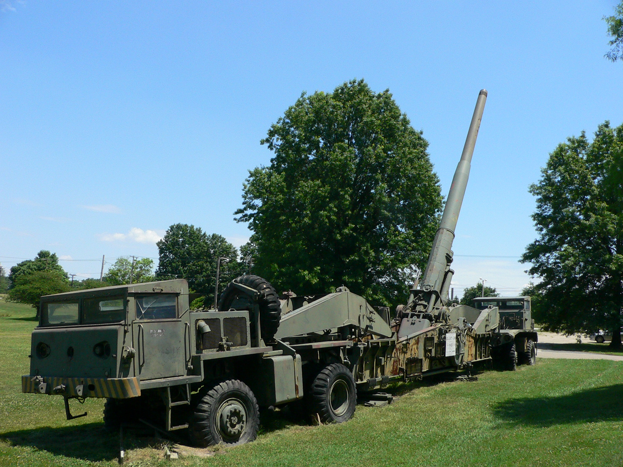 M65 Atomic canon. Picture taken by myself, Mark Pellegrini, at the United States Army Ordnance Museum (Aberdeen Proving Ground, MD) on June 12, 2007.